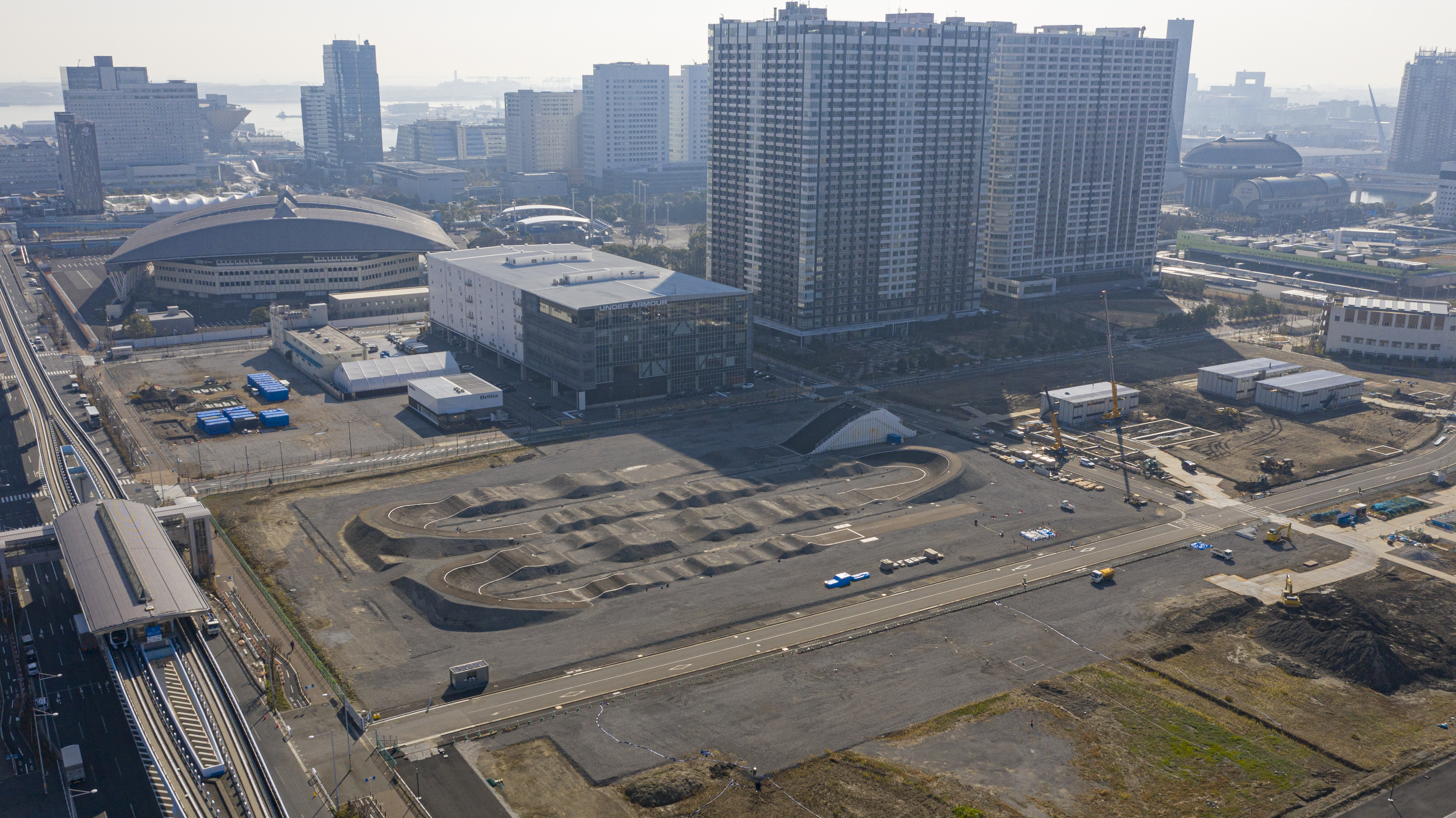 Aerial view of Ariake Urban Sports Park, Tokyo, Japan